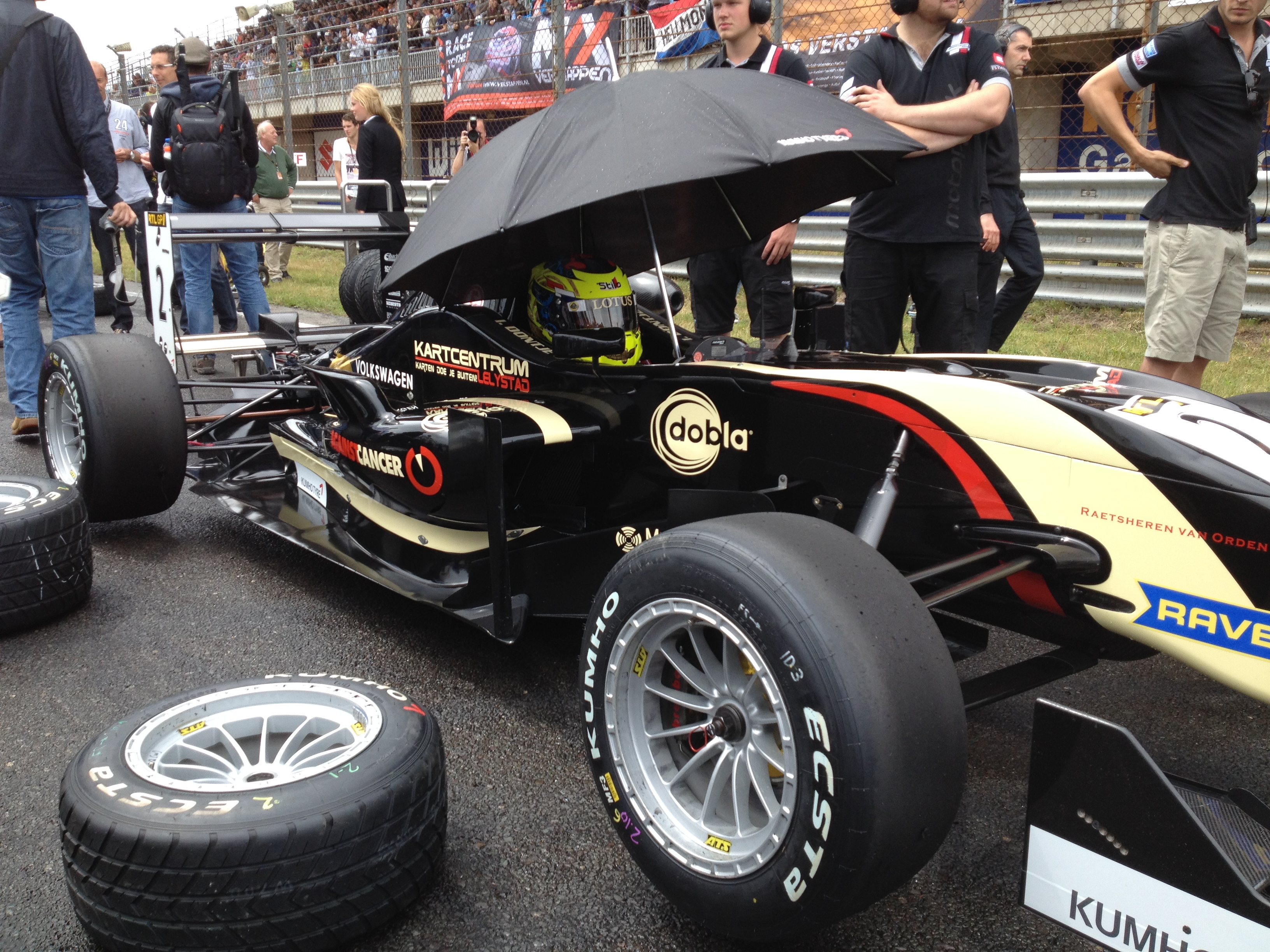 Indy Dontje entered by Motopark on the grid of the 2014 Zandvoort Masters.